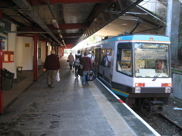 Bury Metrolink Station Bury station is part of the Metrolink tram network which has just undergone a series of multi-million pound improvements. The line reopened in September 2007 after being closed for almost three months. Some of the Metrolink track on the Bury and Altrincham lines was more than 50 years old as it was used by trains before Metrolink opened in 1992. Nearly 20 miles of track has been replaced during the summer, and the platform surfaces have been upgraded to make it easier to get on and off the trams. Bury North MP David Chaytor said: “Metrolink provides an absolutely crucial link between Bury and Manchester, helping to boost the town’s local economy and making it easy to get about in Greater Manchester. I know commuters from Bury to Manchester find it invaluable". Tram journeys are now much smoother, quieter and more reliable. Metrolink information